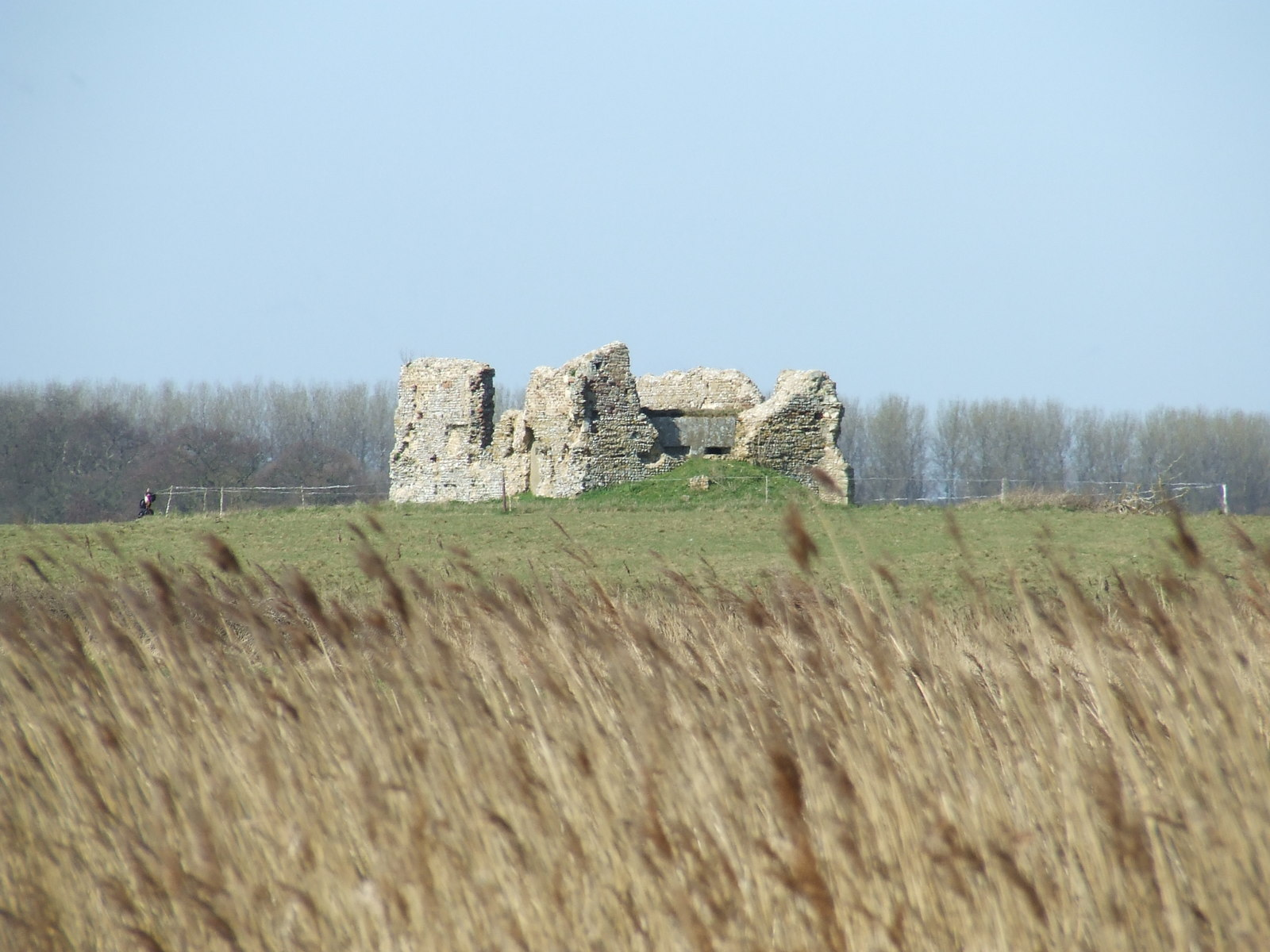 Eastbridge Chapel. Eastbridge Chapel near to Eastbridge, Suffolk as would have been seen by an attacking army, for more info for more photos 1804675 1804656 1804658